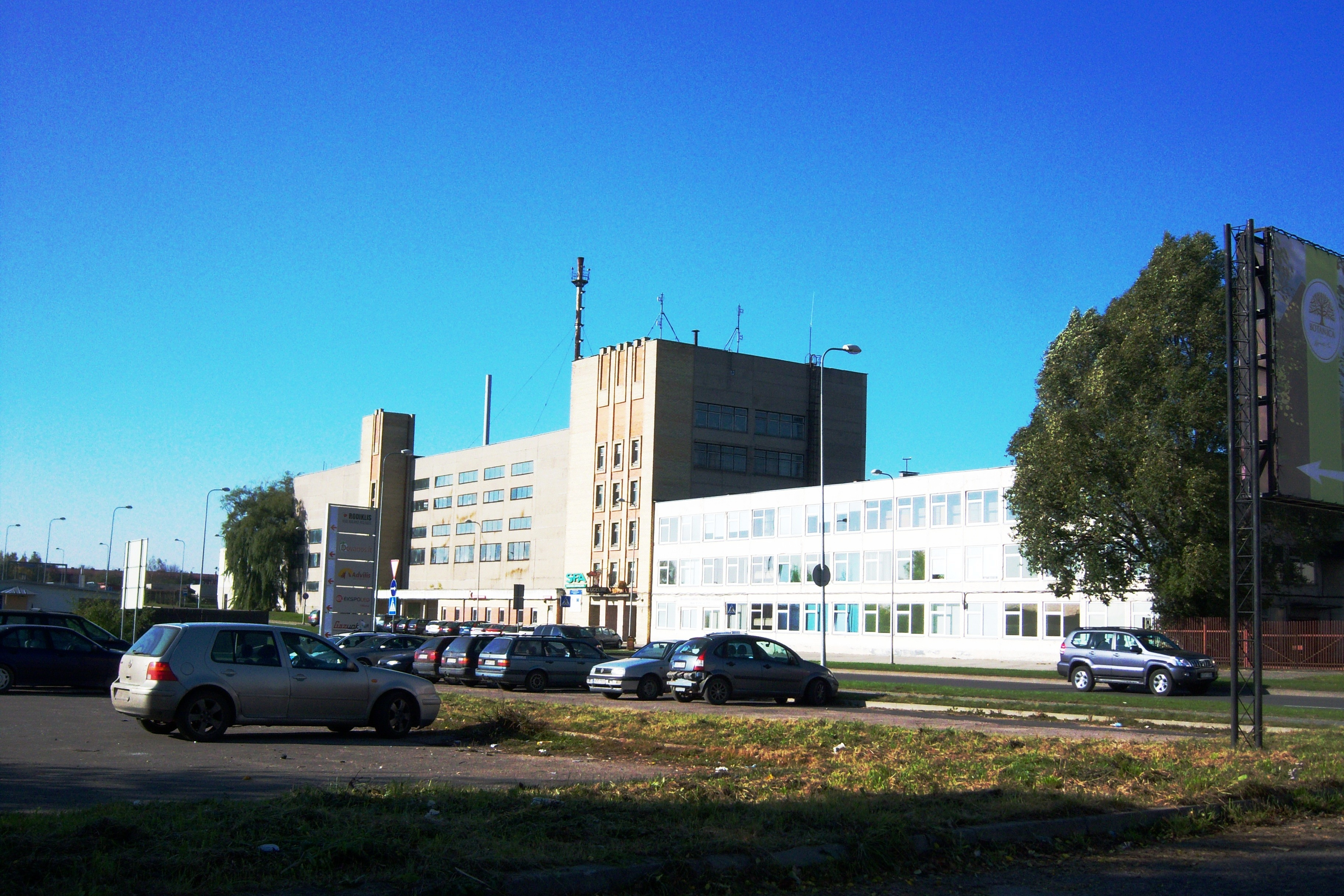 Kaunas Glass factory. Bureau. Lithuania